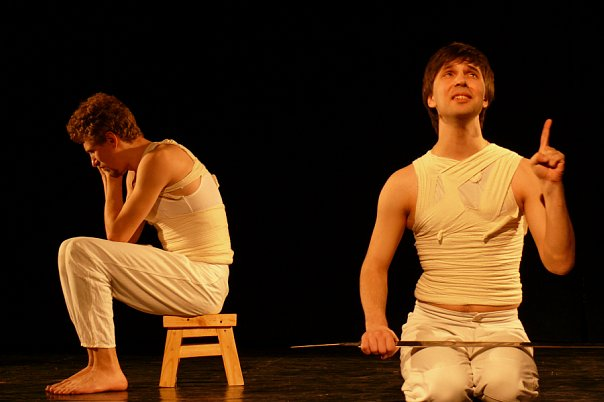 The performance of "The Dungeon". Olexandr Barkar and Dmytro Momot are on stage.